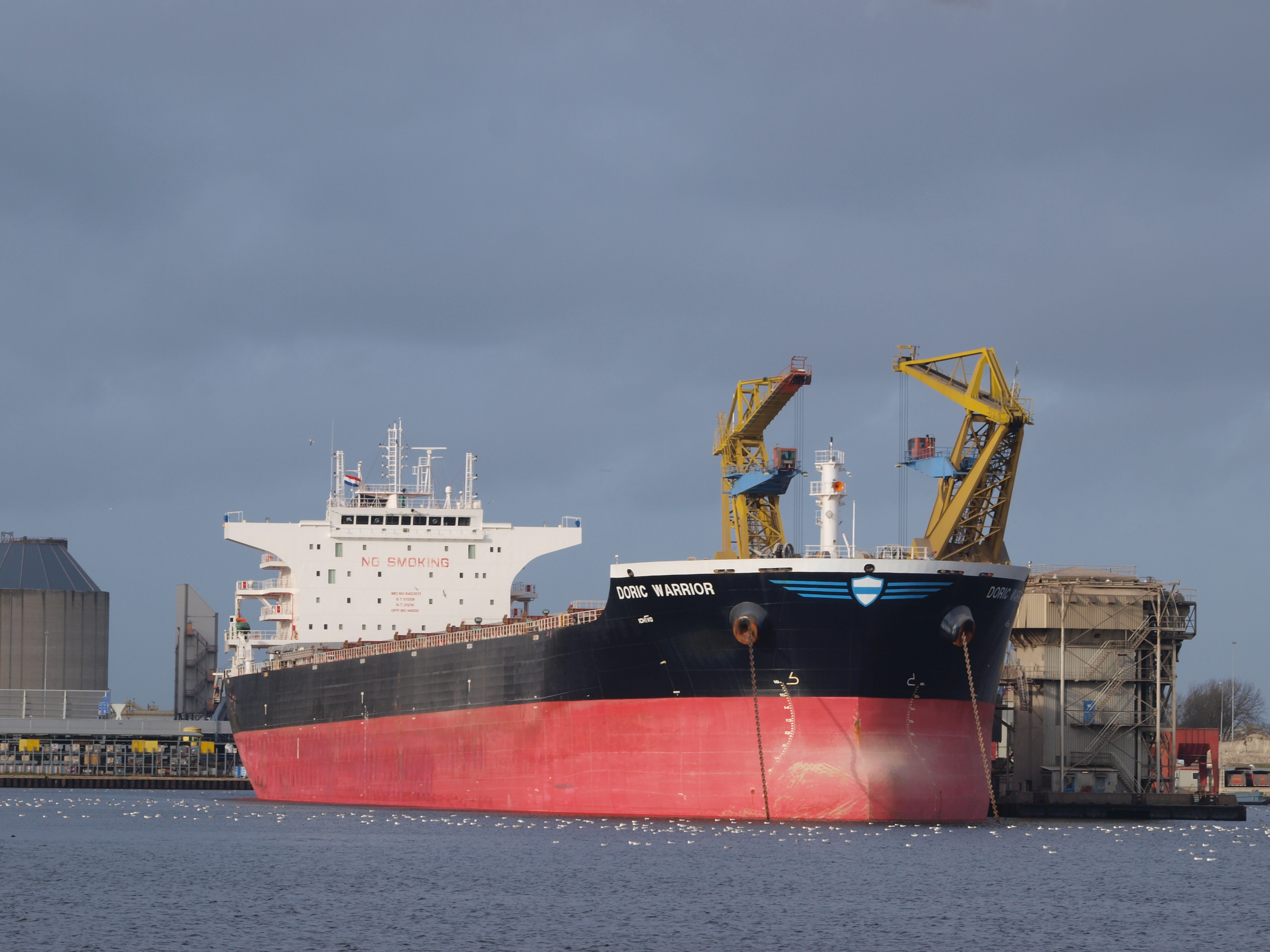 Photographed in and around the harbours of Amsterdam.